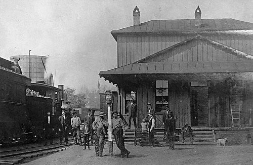 Leaksville, North Carolina, station of the Danville and Western Railroad, known as the 'Dick and Willie' or 'Delay and Wait,' 1912. The railroad ran from Danville, Virginia, west towards Martinsville and Stuart, Virginia, and south towards Leaksville (now Eden), North Carolina. Retouched by MarmadukePercy